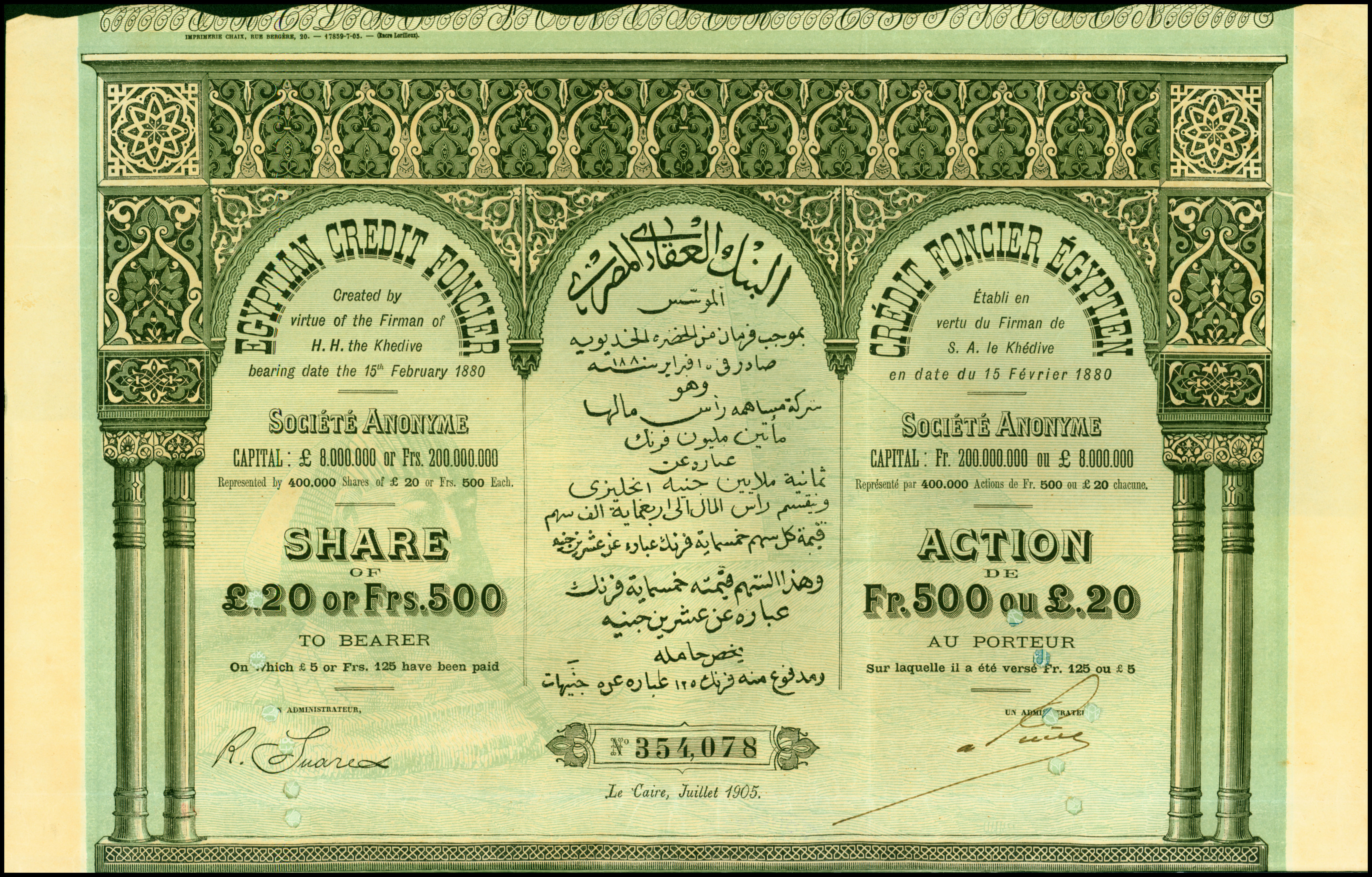 Share of the Egyptian Credit Foncier, issued July 1905